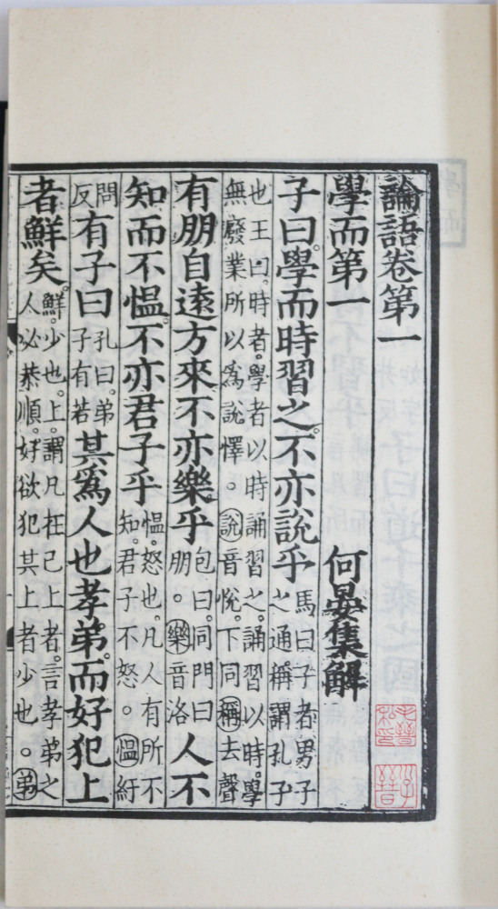 One page of Analects(Lun Yu, Rongo) annoted. Height 24cm, Facsimile of the book printed in Yuan-dynasty(14th century) after Song dynasty Edition. Original book is in National Palace Museum, taipei , This facsimile was published by the museum, ACE1970.